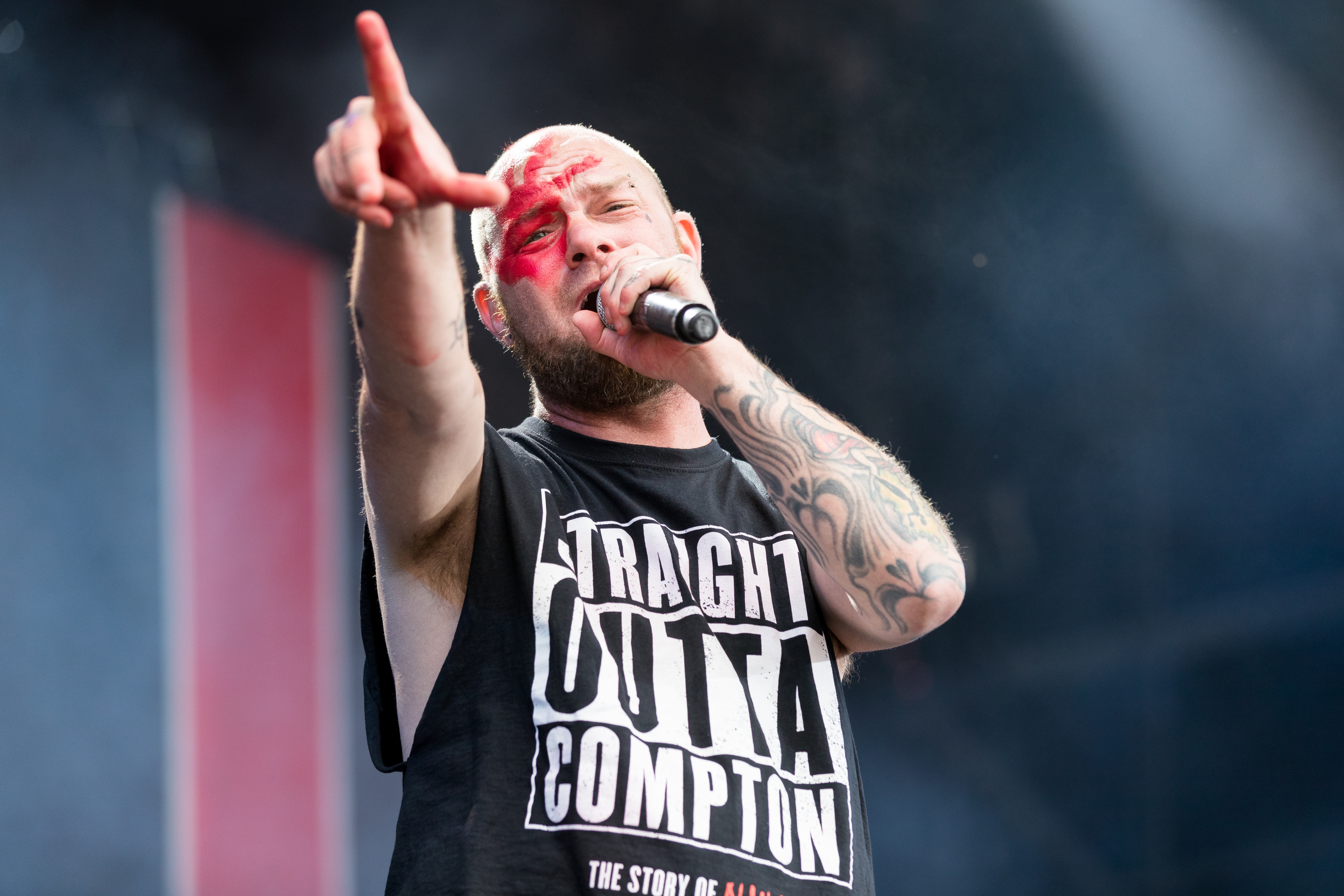 Five Finger Death Punch during Rock am Ring at Nürburgring, Nürnburg, Rheinland Pfalz, Germany on 2017-06-02, Photo: Sven Mandel